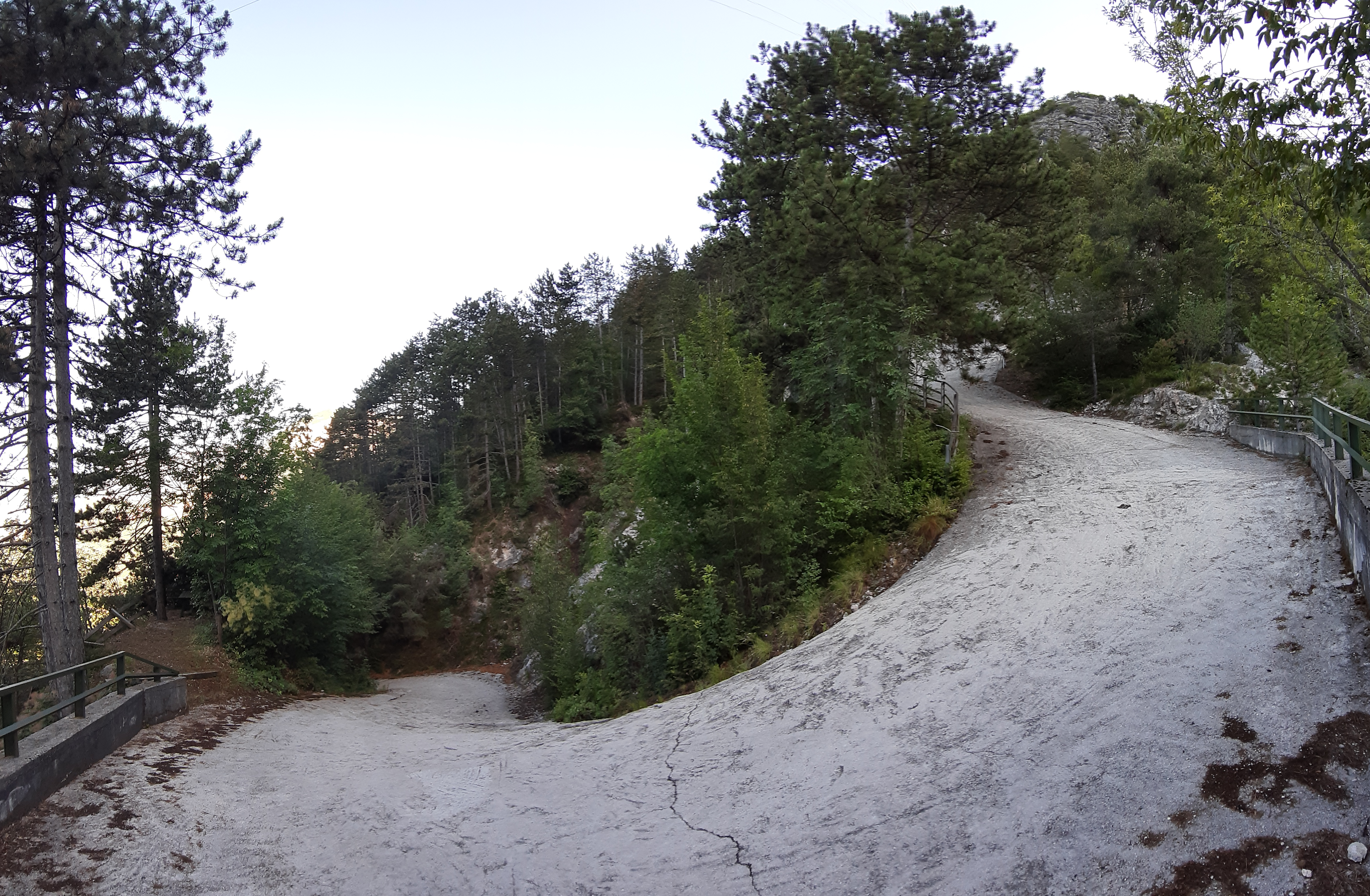 Scanuppia - Malga Palazzo climb